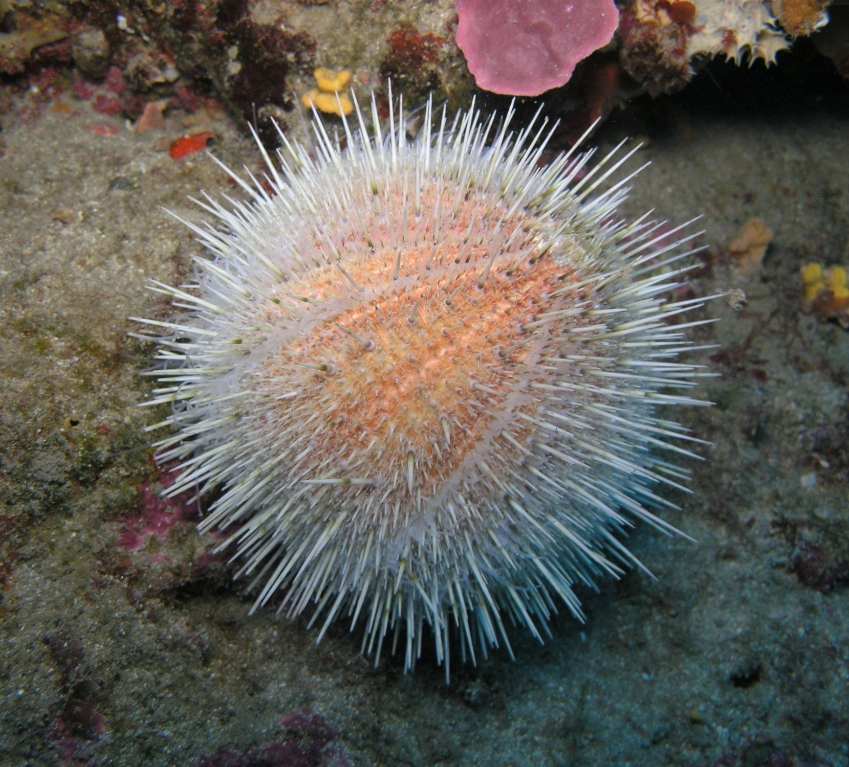 The Echinus melo or water melon sea urchin at Capo Caccia Alghero Sardinia